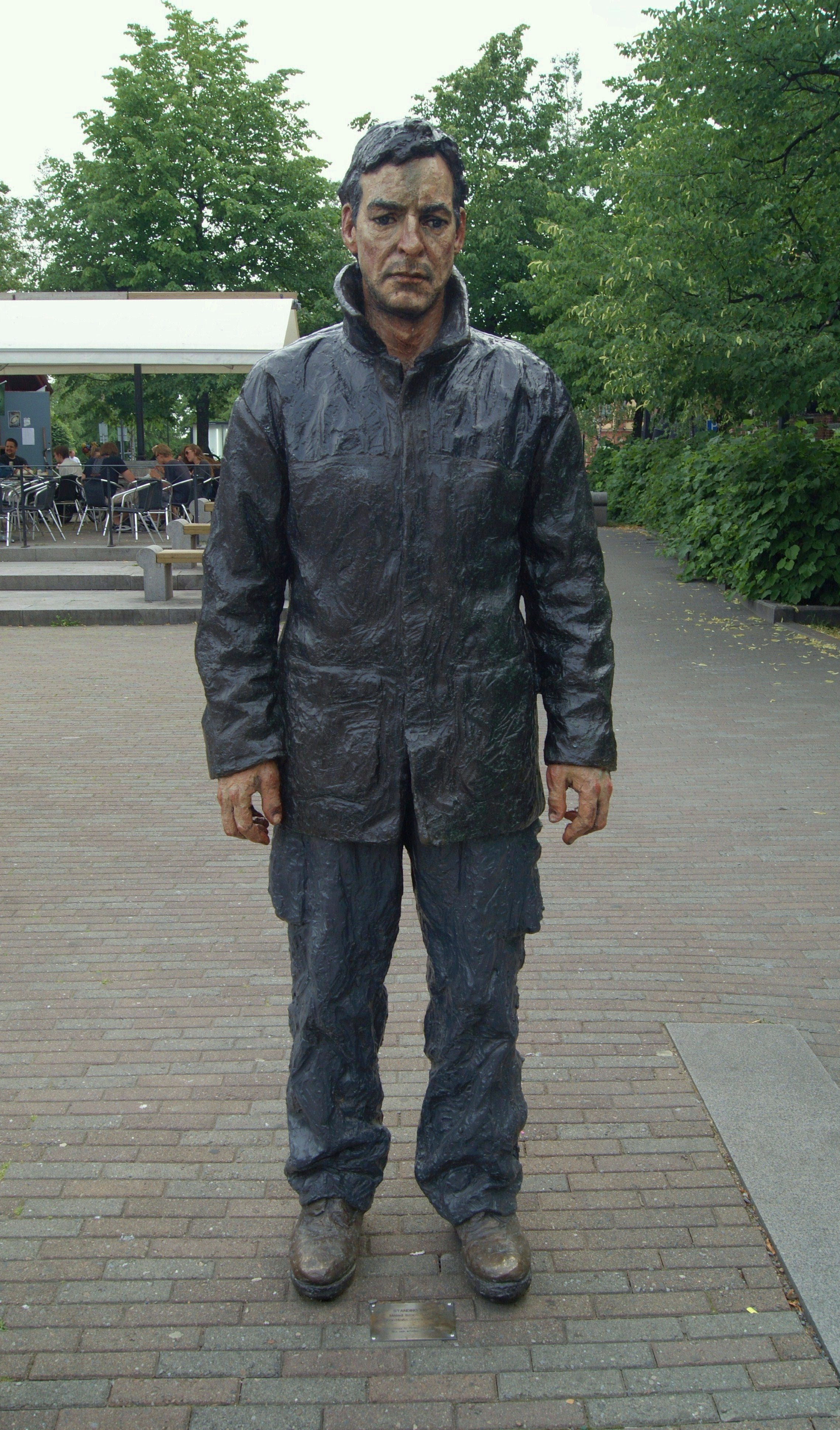 The statue Standing Man was created by the artist Sean Henry in 2000. The material is painted bronze.